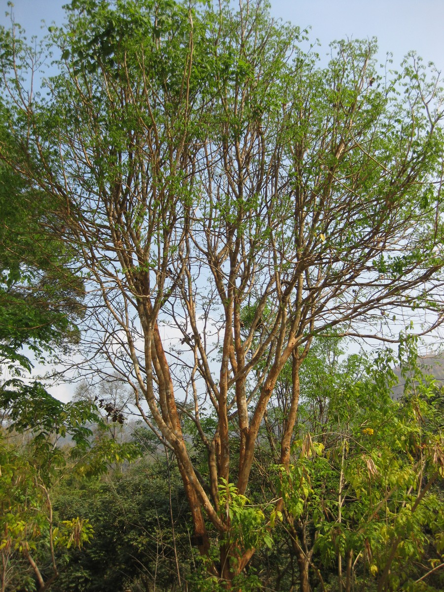 Photographed at the Queen Sirikit Botanic Garden (Chiang Mai Province, Thailand) in March